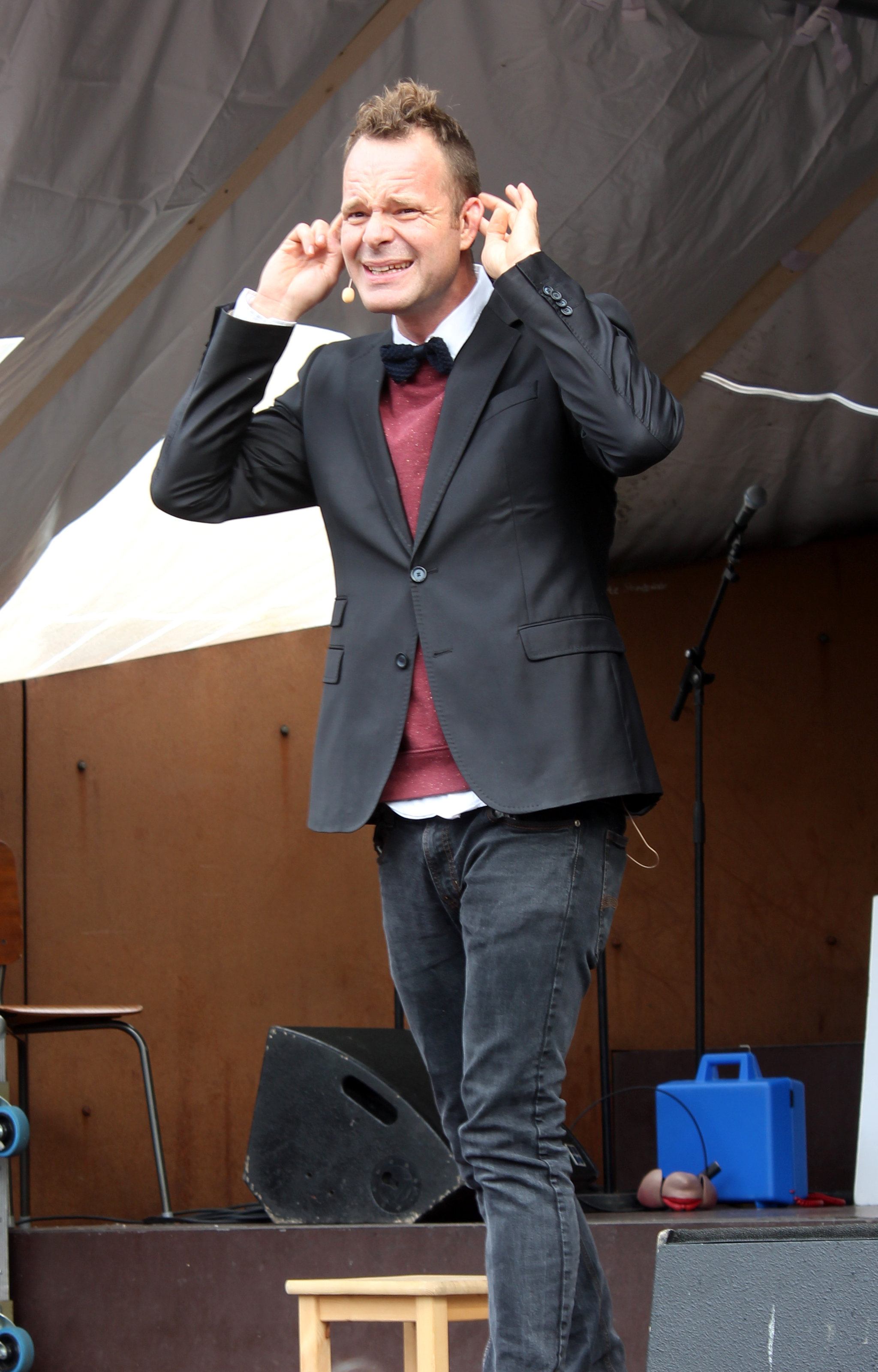 Jacob Terp Riising is a danish actor,TV-host and performer. On the picture, he is performing in front of 300 kids at Kolding Kulturnat. (Culture Night in Kolding, Denmark) 2014.